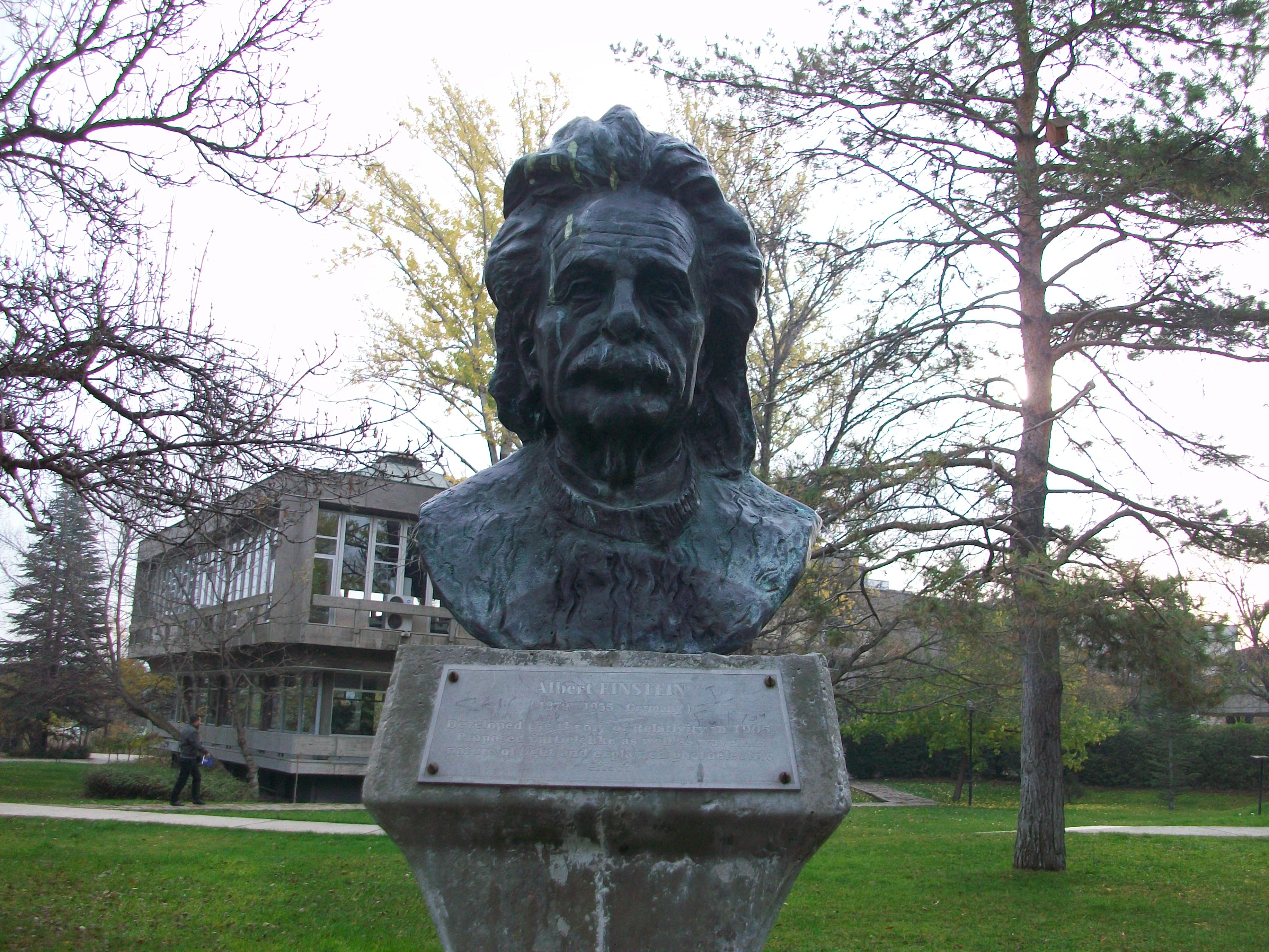 Albert Einstein bust at METU.